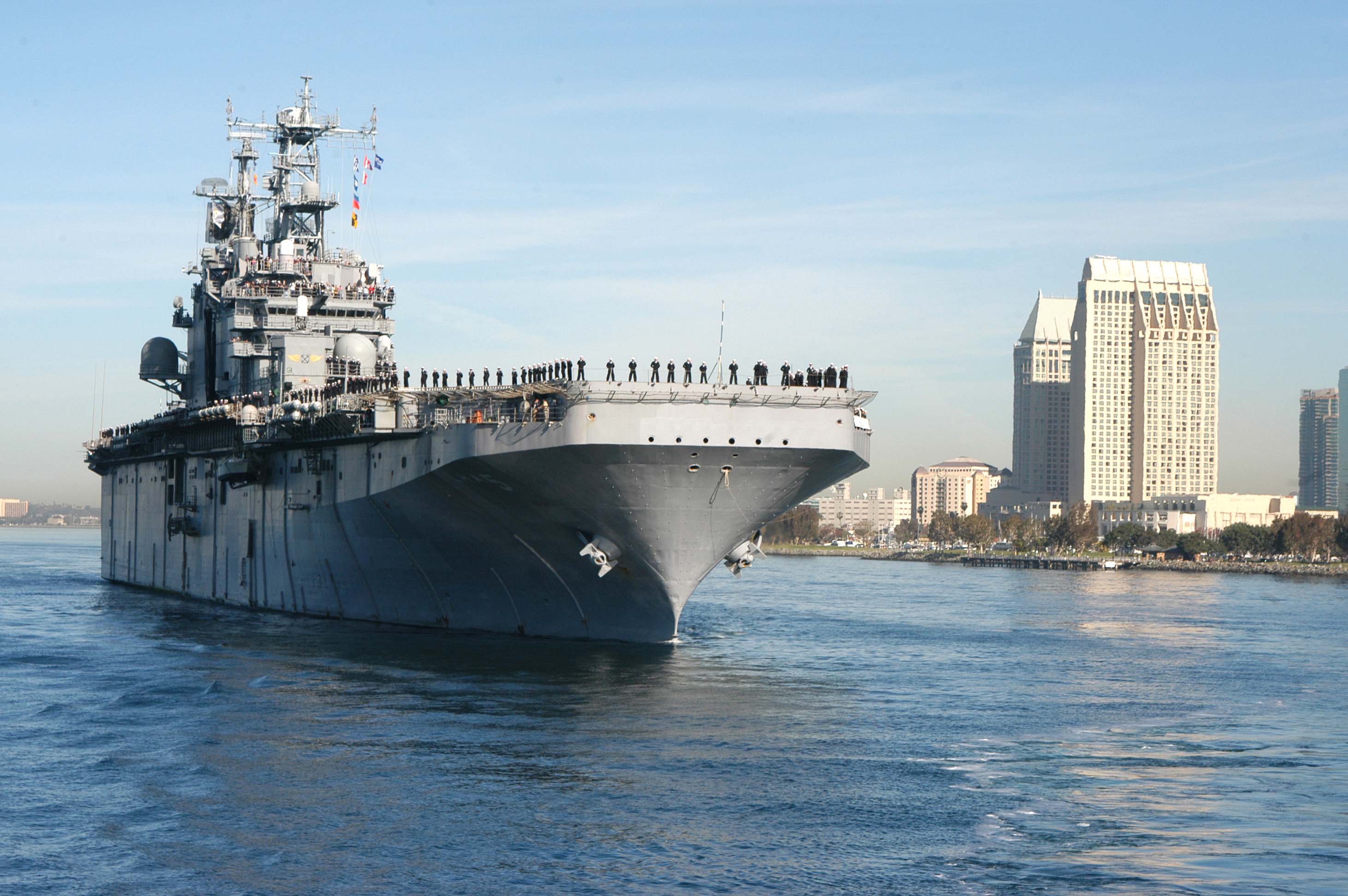 San Diego, Calif. (Mar. 9, 2004) – Sailors “man the rails” aboard the amphibious assault ship USS Peleliu (LHA 5) as the ship transits San Diego Bay as she returns from deployment in support of Operation Iraqi Freedom (OIF). Five San Diego-based ships assigned to Expeditionary Strike Group One (ESG 1) returned home following a six and a half month deployment in support of the global war on terrorism. The ships of ESG 1 include the amphibious assault ship USS Peleliu (LHA 5), the dock landing ship USS Ogden (LPD 5), guided missile destroyer USS Decatur (DDG 73), the guided missile frigate USS Jarrett (FFG 33) and the dock landing ship USS Germantown (LSD 42). U.S. Navy photo by Photographer's Mate 3rd Class Mark A. Mead. (RELEASED)